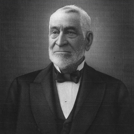 Augustus C. Baldwin (Michigan Congressman)